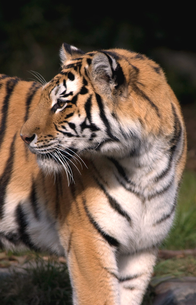 A modified version of Image:Tatiana San Francisco Zoo-Dec 2007.jpg. White balance has been auto-adjusted, and brightness and contrast have both been slightly increased. This makes the picture more visually appealing, especially at smaller sizes.